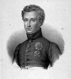 Napoléon II of France